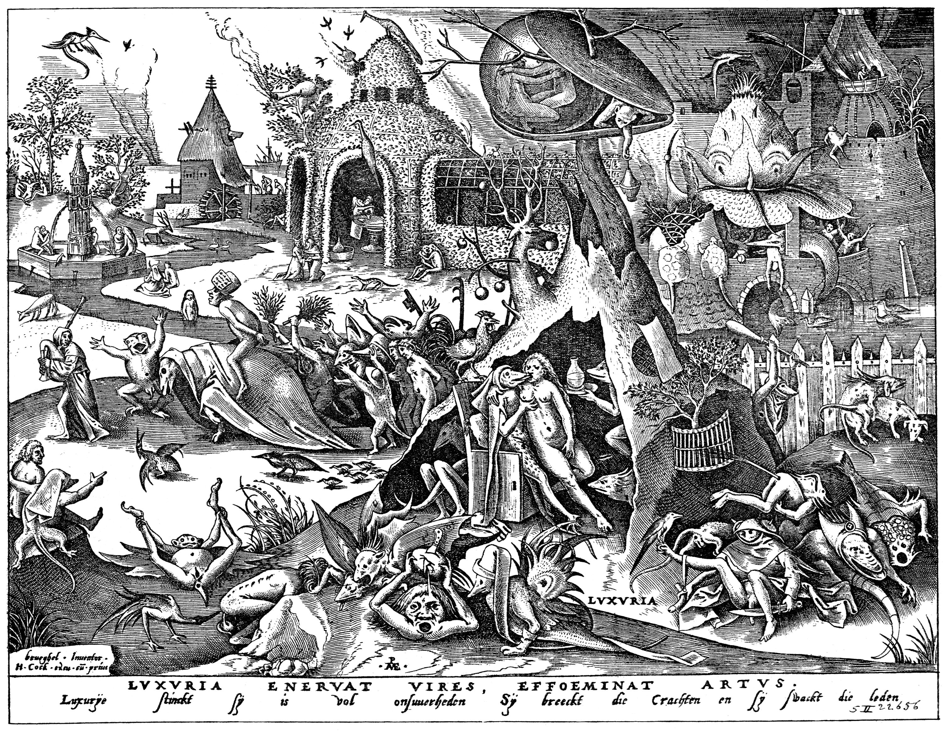 The Seven Vices, also the Seven deadly sins: Greed (Avaritia), Acedia or depression without joy (Disidia), Gluttony (Gula), Envy (Invidia), Wrath (Ira), Pride (Superbia) and Extravagance or Lechery (Luxuria). By Pieter Bruegel, published by Hieronymus Cock. The series is completed by a final depiction of the doom. See also: Brueghel: The Seven Virtues